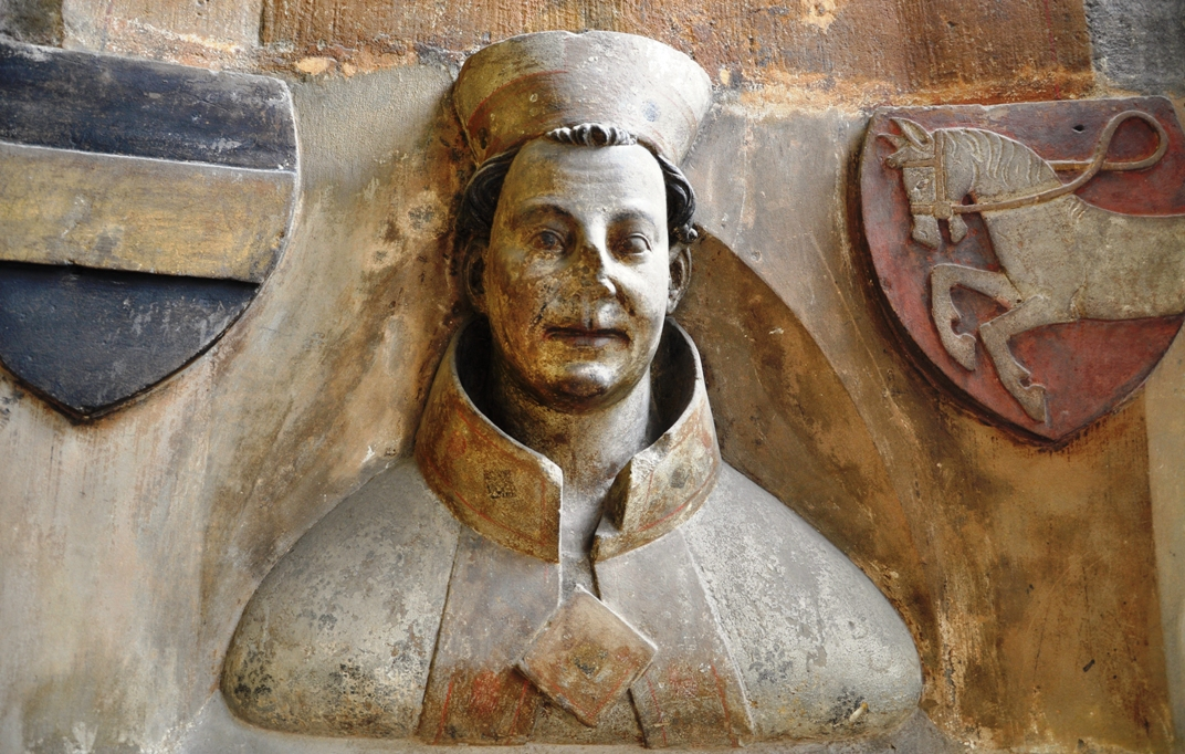 Sandstone bust of Arnošt of Pardubice, the first Archbishop of Prague. From the 1370s, Prague.